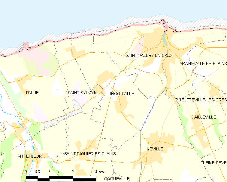 Map of French municipality Ingouville